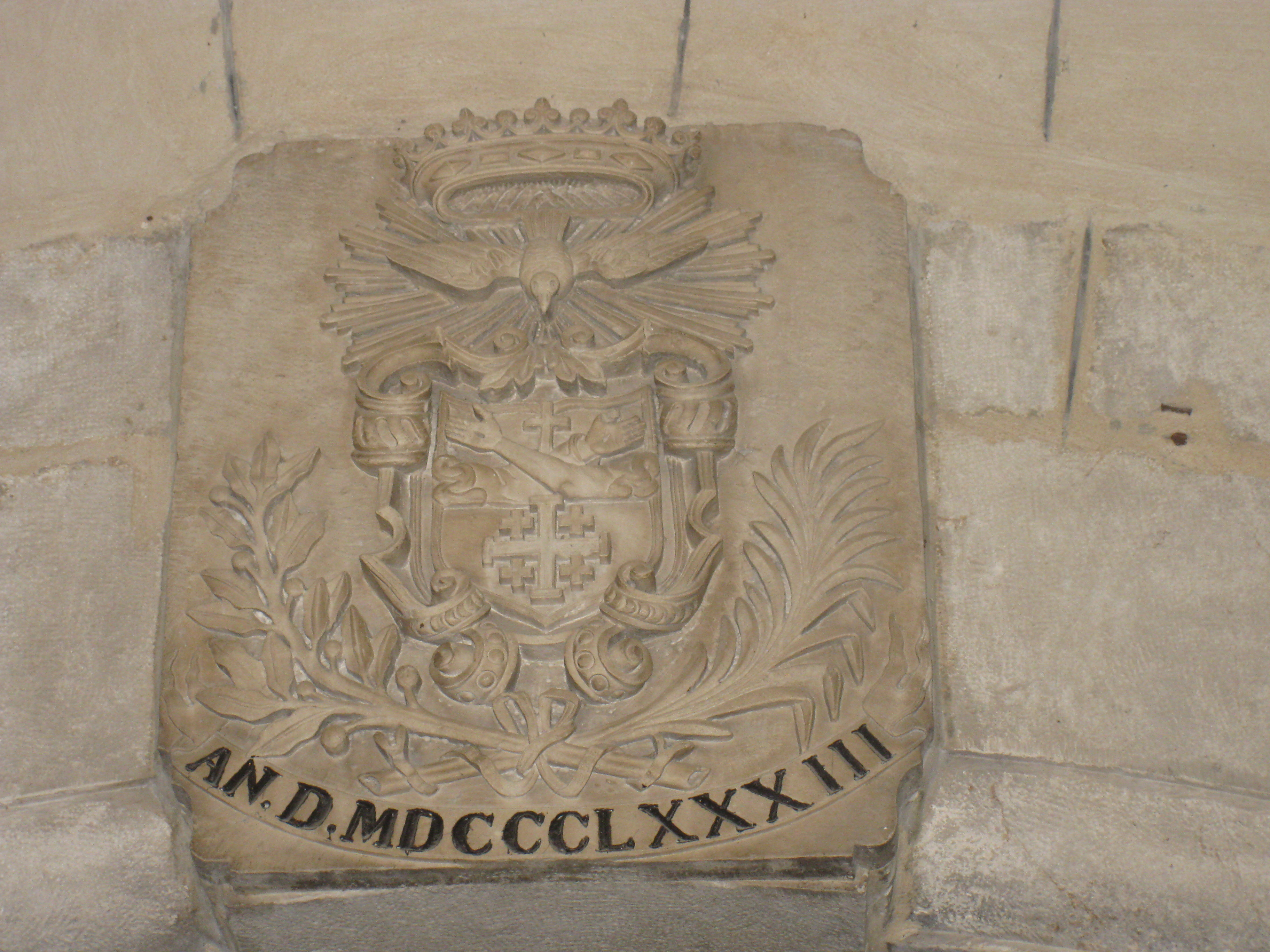 Old Jerusalem, The Christian Quarter, Saint Francis Street - San Salvatore compound